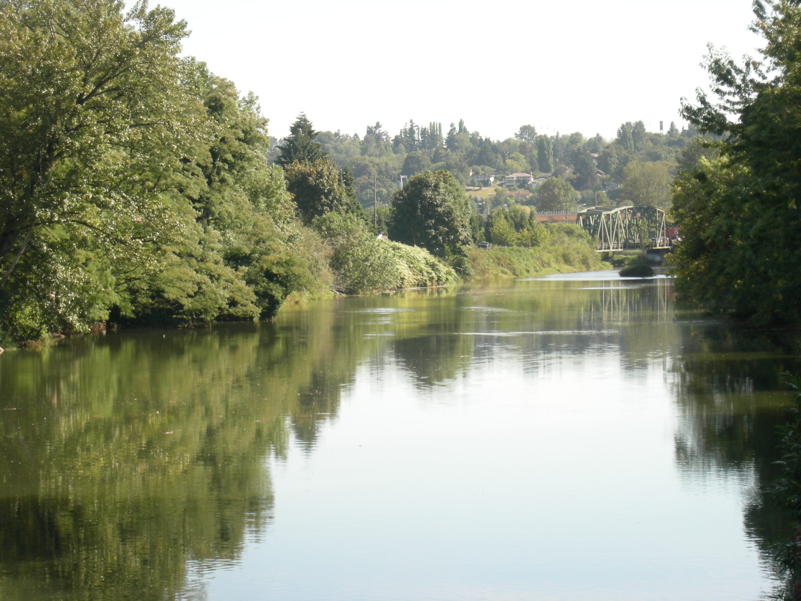 Upper portion of the Duwamish River, Tukwila, Washington, seen from 119th Street footbridge. Looking upstream. Allentown Bridge in the distance. The tiny island in the middle distance is the remnant of the pier of the Riverton Draw Bridge (also called the Riverton Drawspan, King County Bridge 622-A), built 1903, closed to vehicles 1919, demolished 1927.